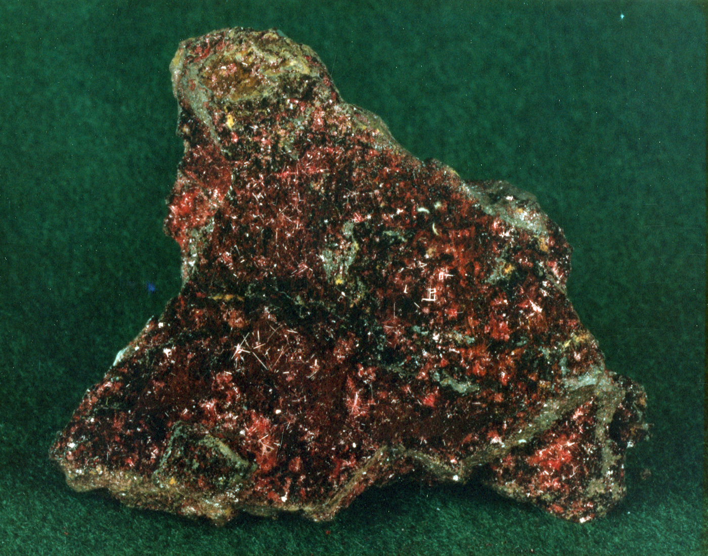 Cuprite - Locality: Morenci, Arizona - „Bureau of Mines“, Mineral Specimens C\01786